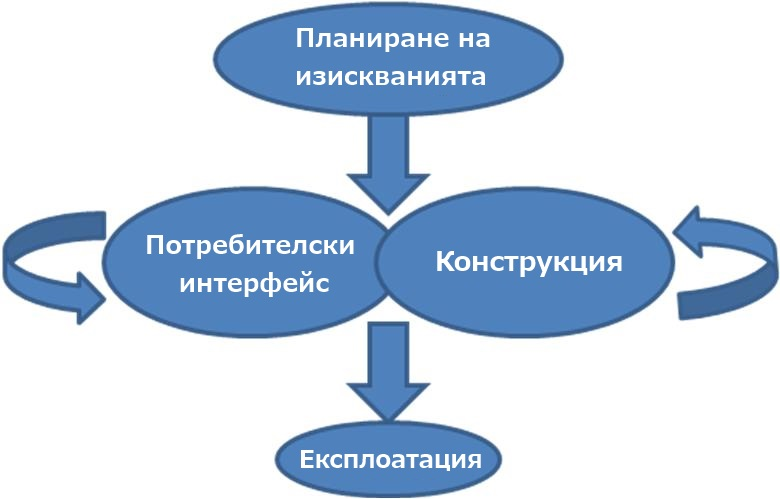 Rapid Application Development (RAD) Model